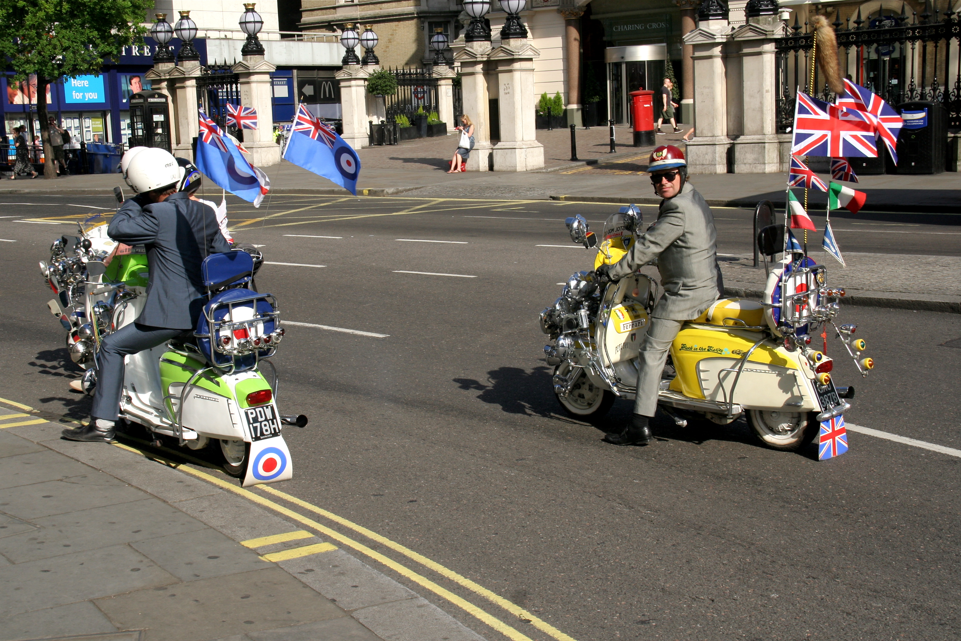 The Strand